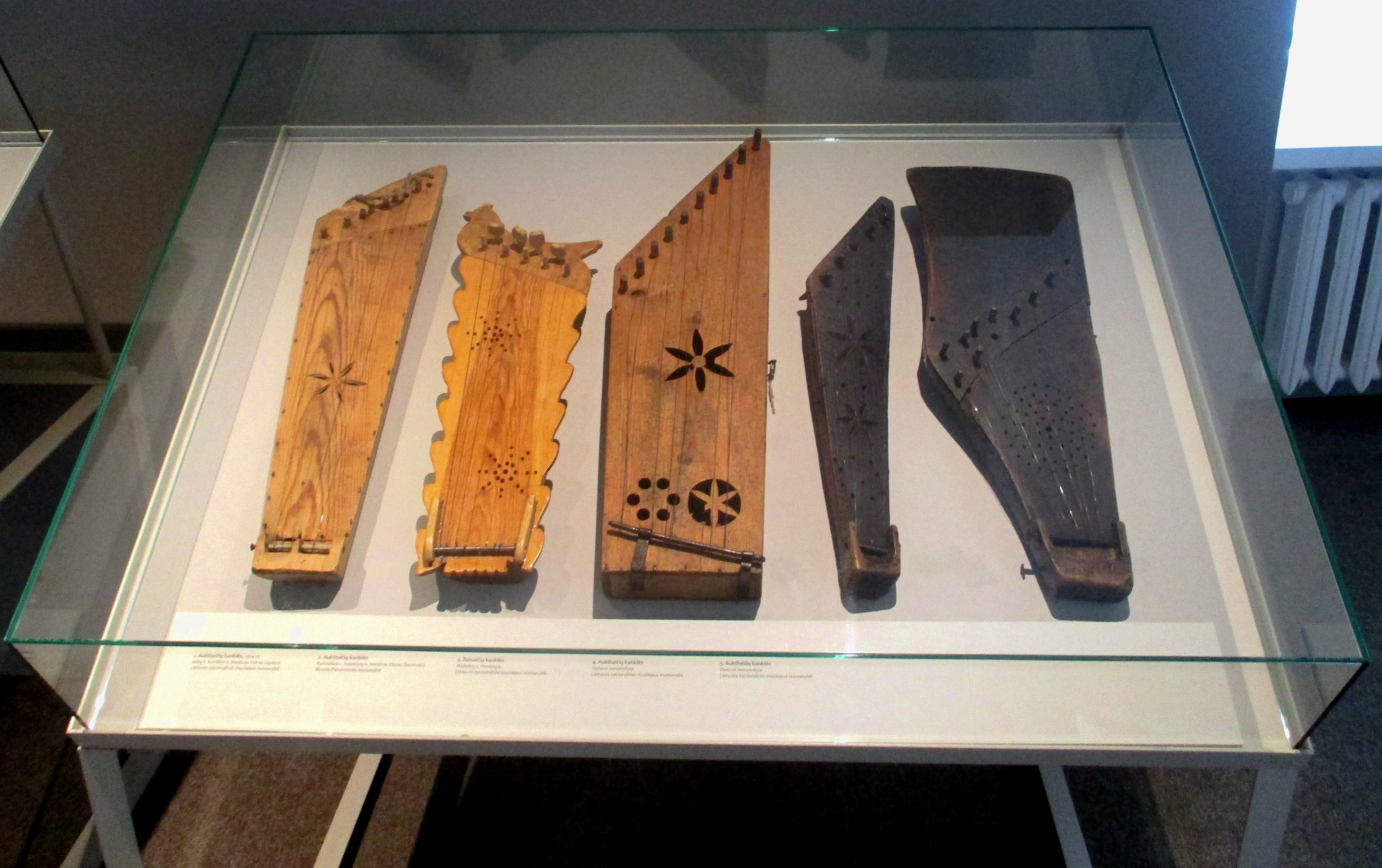 Various Aukštaitian and Samogitian kanklės in the National Museum of Lithuania: 1. Aukštaitian kanklės, 1924. Biržiai District, Kviriškiai. Made by Petras Lapienė. Property of National Museum of Lithuania. 2. Aukštaitian kanklės, 1924. Radviliškiai District, Kubiliūnai. Made by Petras Lapienė. Property of Birutė Panumienė. 3. Samogitian kanklės. Mažeikiai District, Pievėnai. Property of National Museum of Lithuania. 4. Aukštaitian kanklės. Location unknown. Property of National Museum of Lithuania. 5. Aukštaitian kanklės. Location unknown. Property of National Museum of Lithuania.